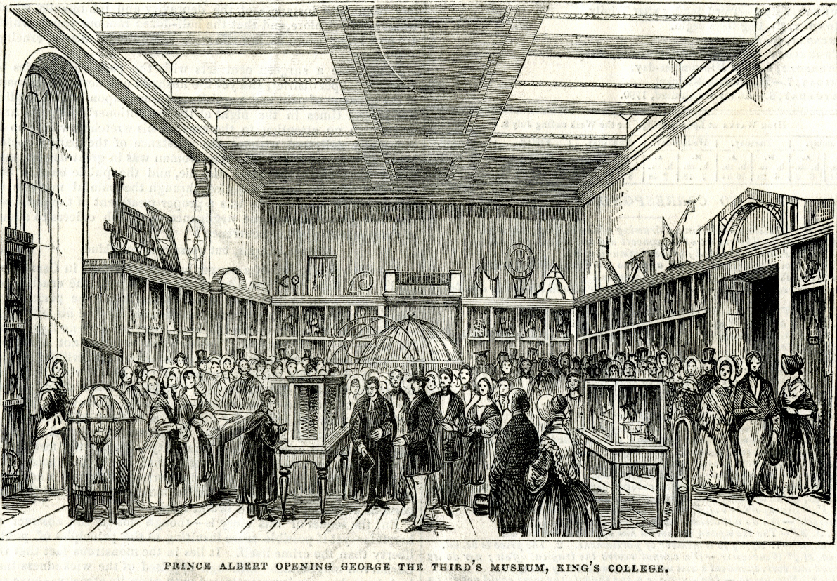 Engraving from the Illustrated London News, 1 July 1843. Opening of the King George III Museum, in King's College London, by Albert, Prince Consort. The Analytical Engine of Charles Babbage is left of centre.